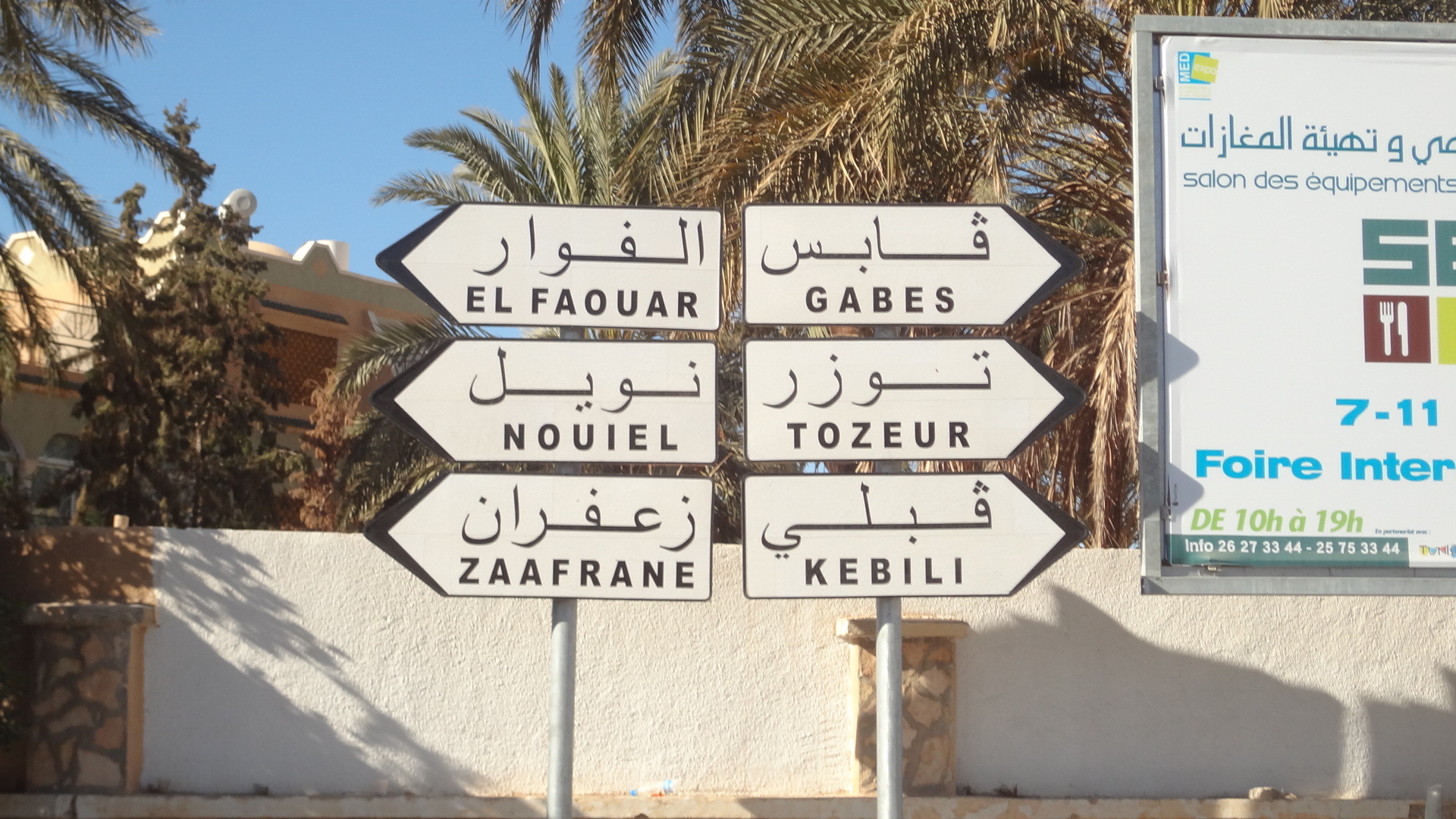 Douz downtown